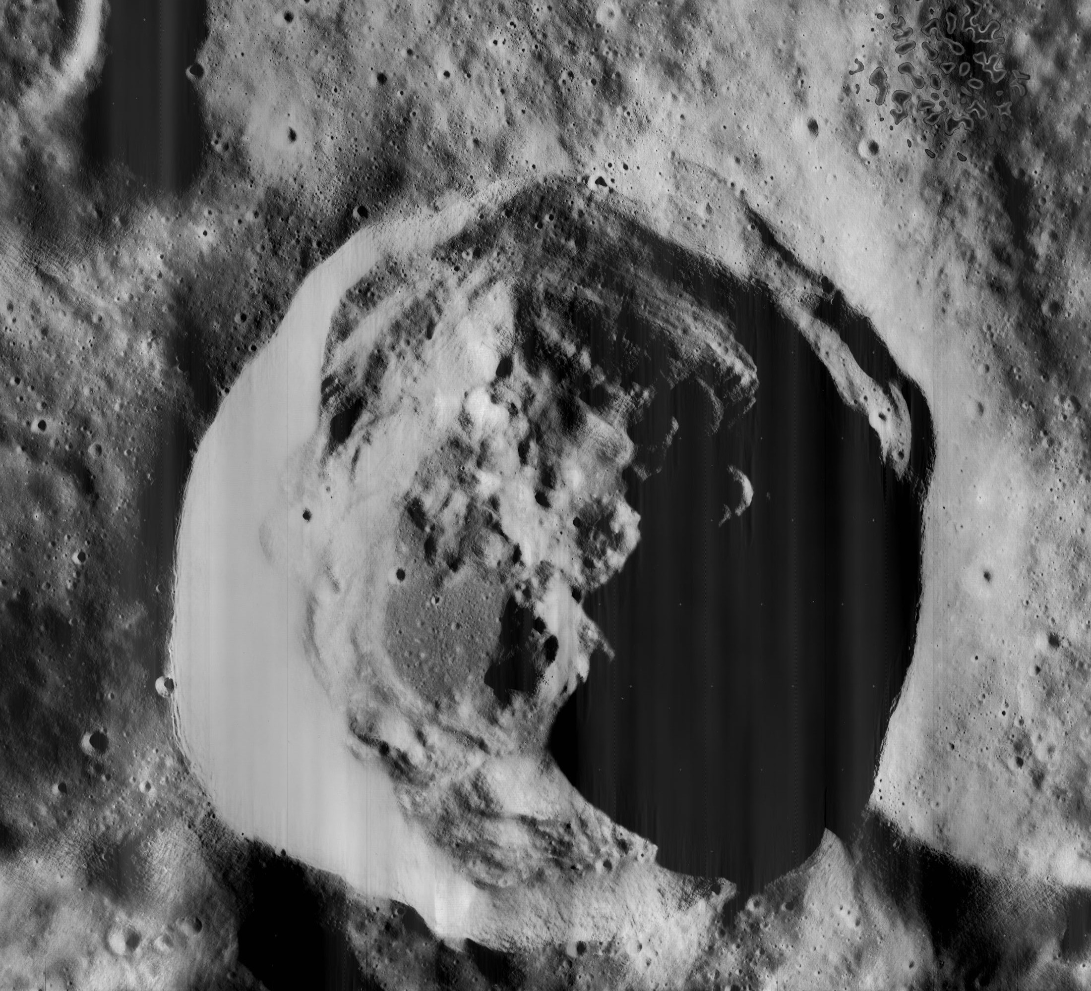 Gassendi A crater, north of Gassendi crater, on the moon.